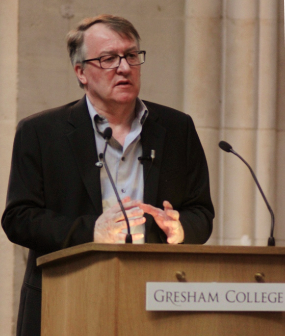 Stephen Hodder delivering a Gresham College lecture